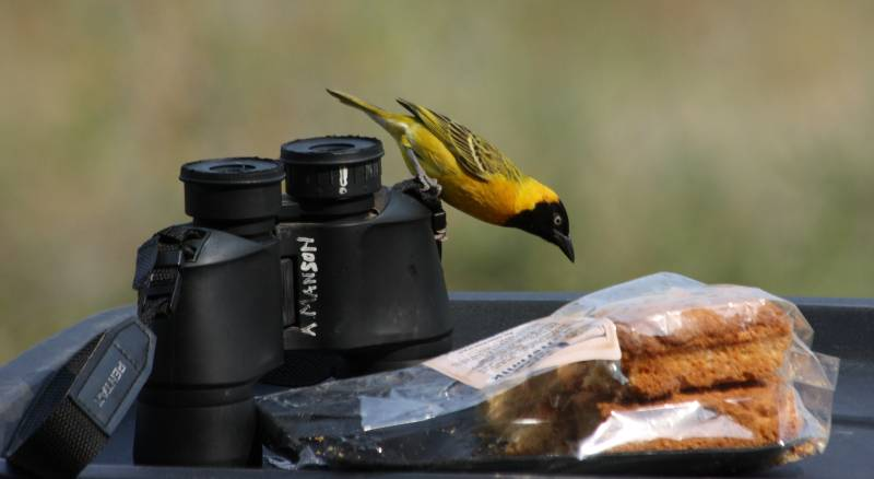 Lesser Masked Weaver (Ploceus intermedius) inspects birdwatcher Alan Manson's gear and food. Location: Ngwenya Resort, near Kruger National Park, South Africa.